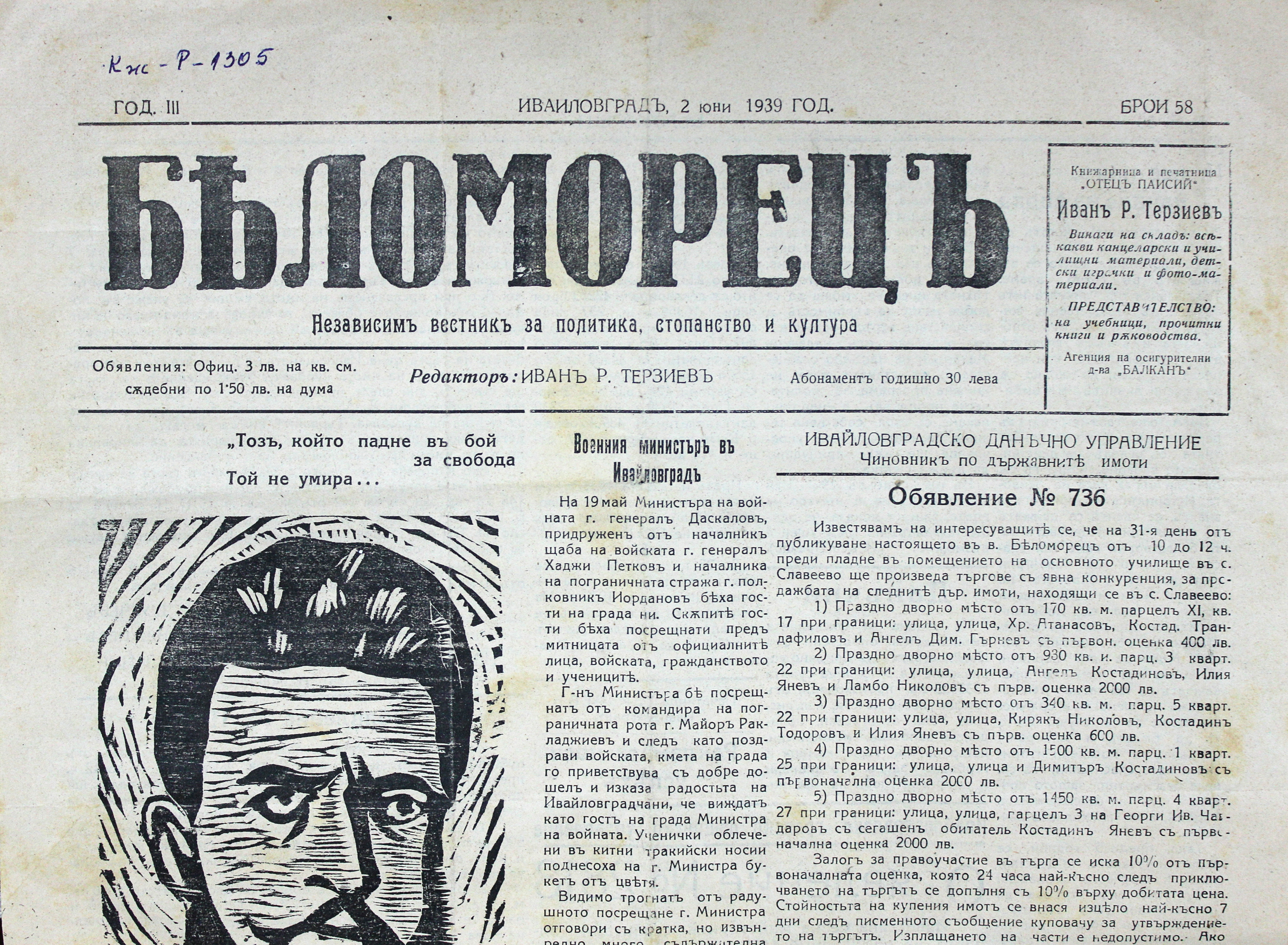 Historic Museum Ivailovgrad, Bulgaria; Newspaper Belomorets 1939